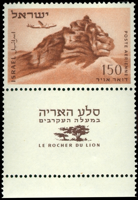 Airmail 1954 stamp- 150 mil, Second definitive series. Inscription on tab: "Lion Rock at Ma'ale Ha'akrabim".